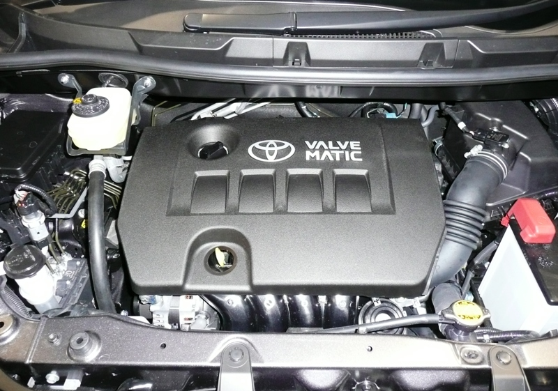 Toyota 3ZR-FAE engine.